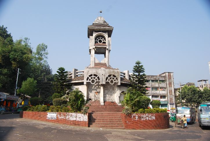 Cheragi Pahar Circle, Chittagong, Bangladesh.